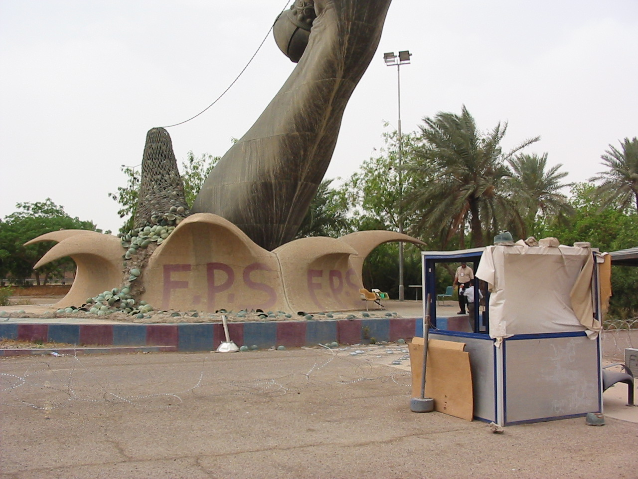 The base of one of the Hands of Victory showing the 'caretakers booth' erected by Iraqi policemen manning the monument. Photo from the summer of 2004.